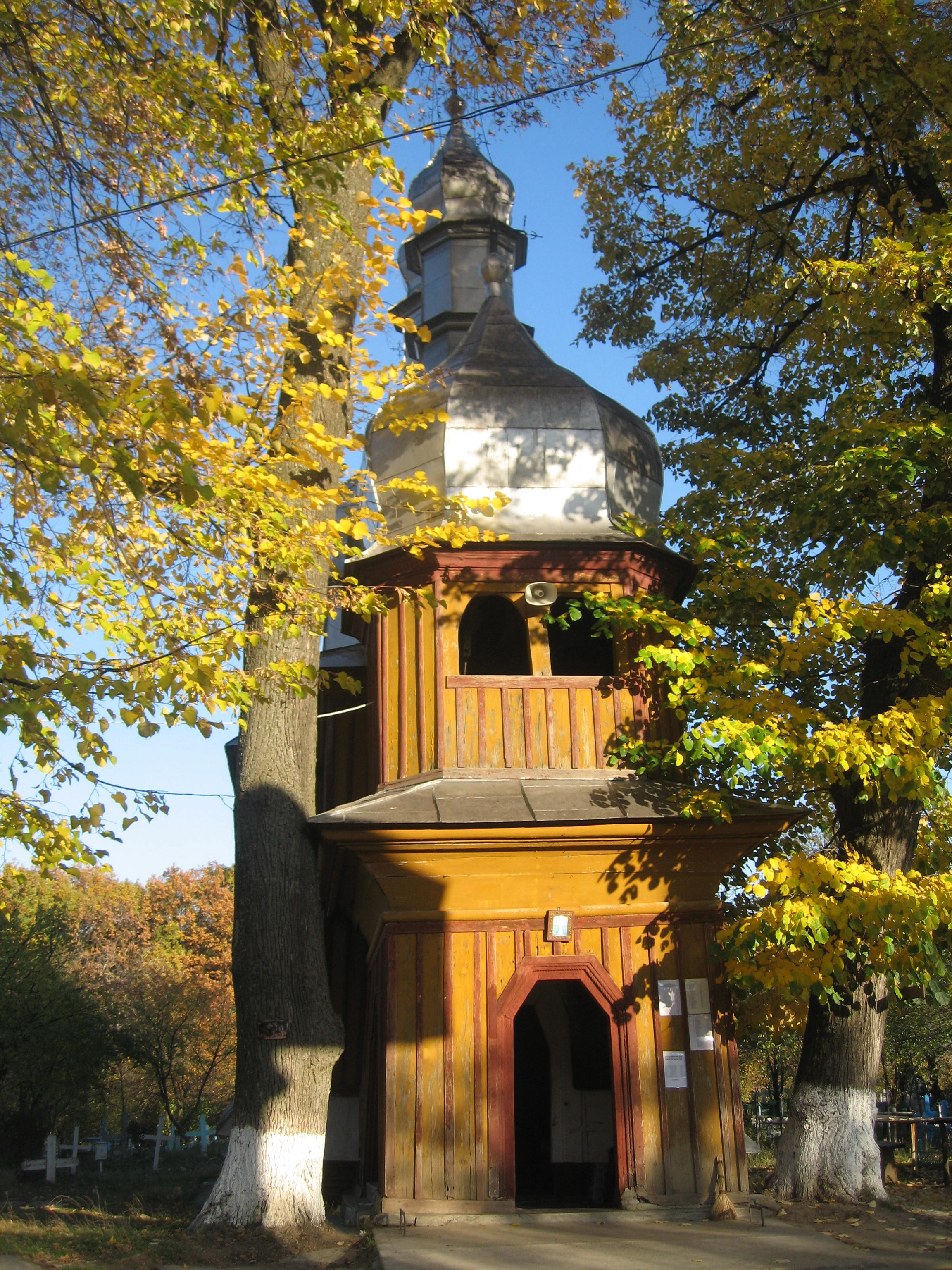 Biserica de lemn din Brădiceşti